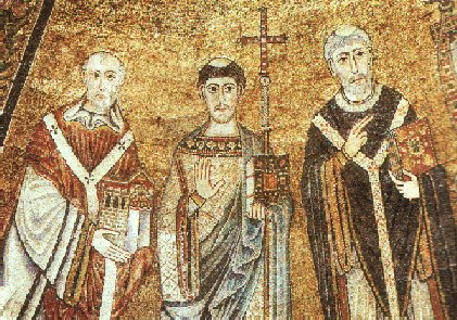 Excerpt from a mosaic in the church Santa Maria in Trastevere in Rome. Pope Innocent II stands at the far left, beside Sts. Lawrence and Calixtus. The Pope is depicted as the founder of the new building of Santa Maria, holding it in his arms. the mosaic is from the building of the church by Innocent II, thus is 12th century